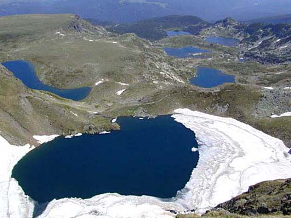 The Seven Rila Lakes in Bulgaria.